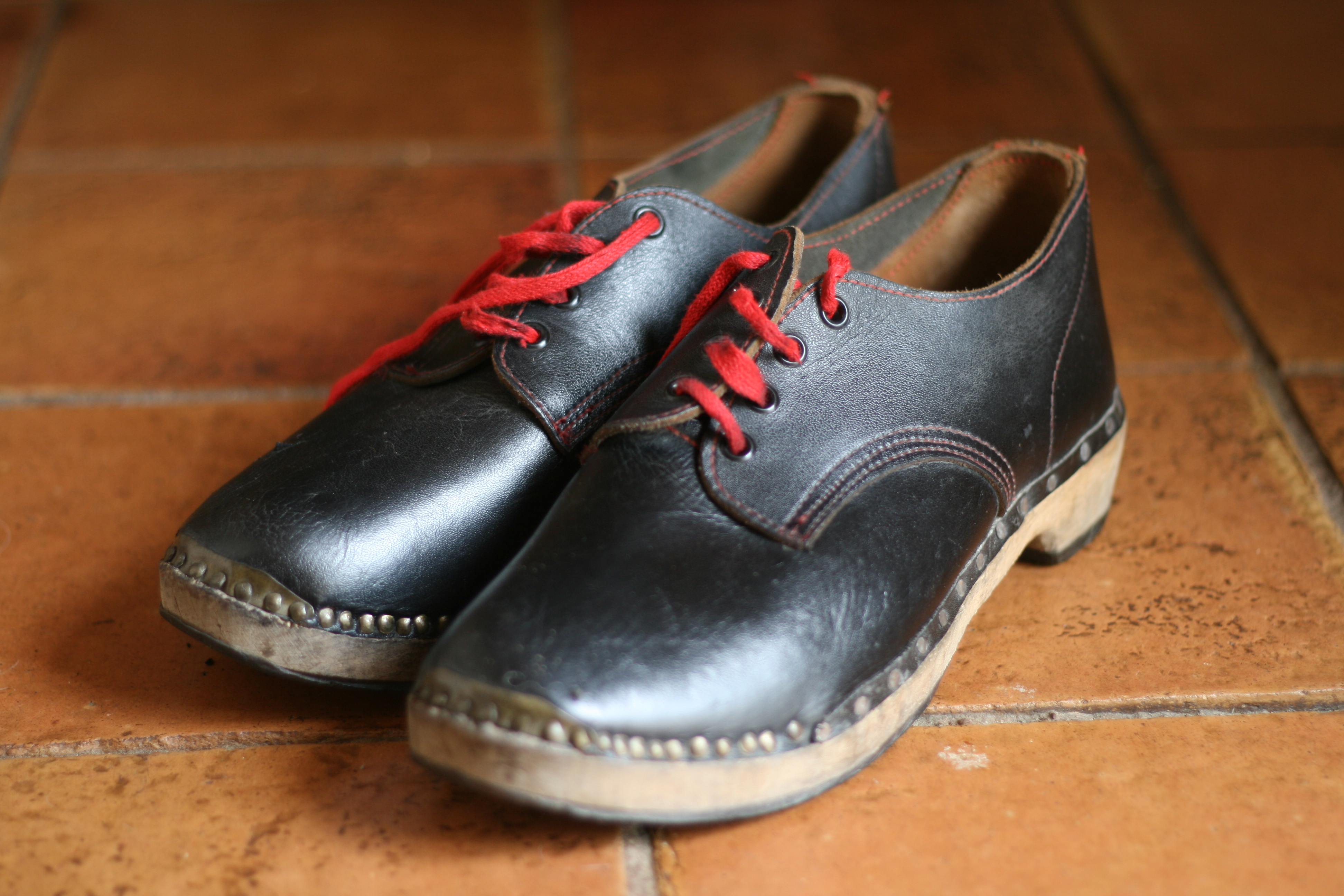 Lancashire clogs (black) made circa 1983.